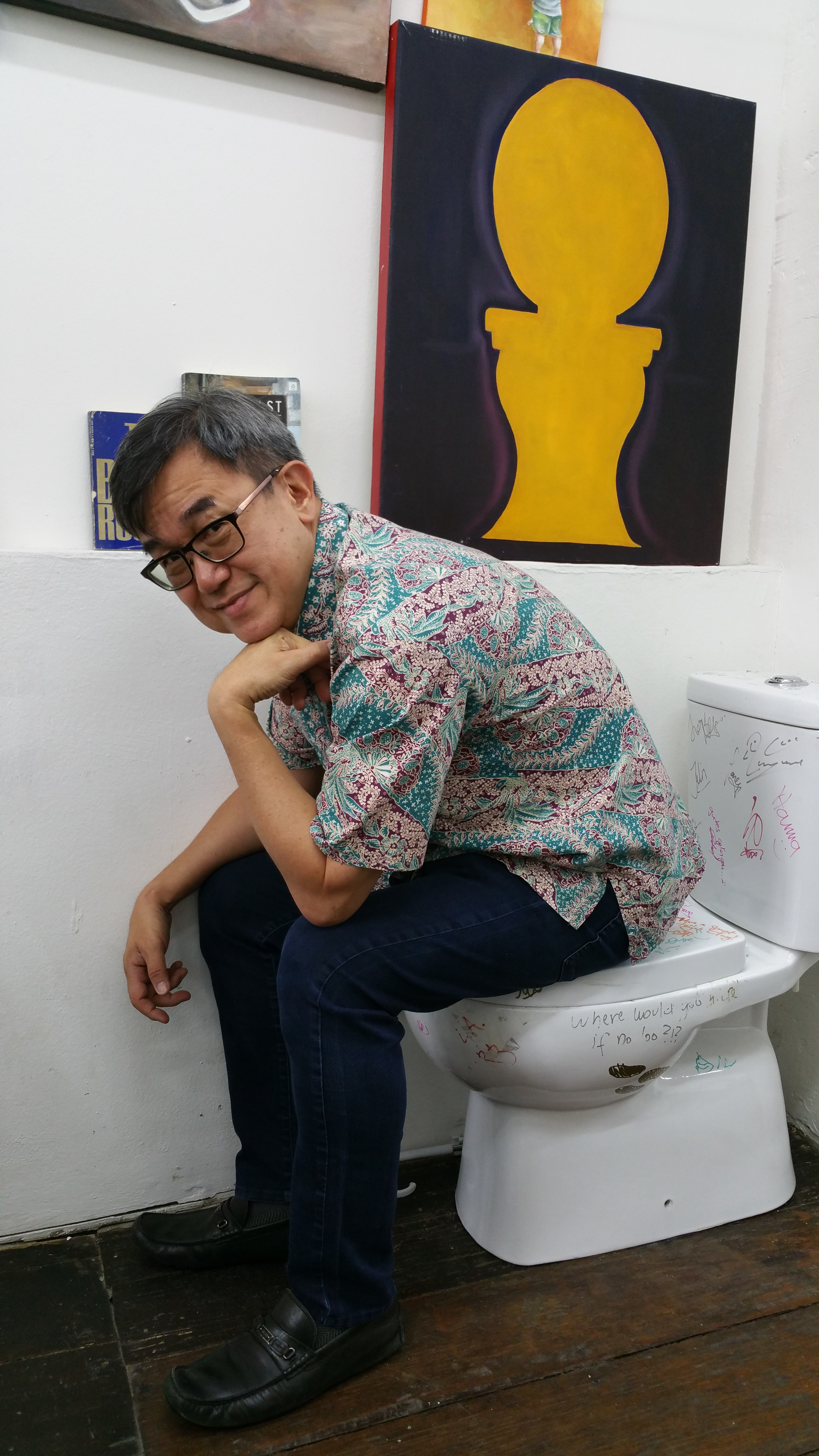 Jack Sim thinking how to solve the global sanitation crisis